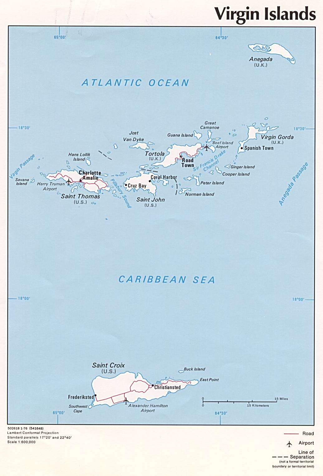 Political map of U.S. Virgin Islands and British Virgin Islands, 1976, produced by the U.S. Central Intelligence Agency.